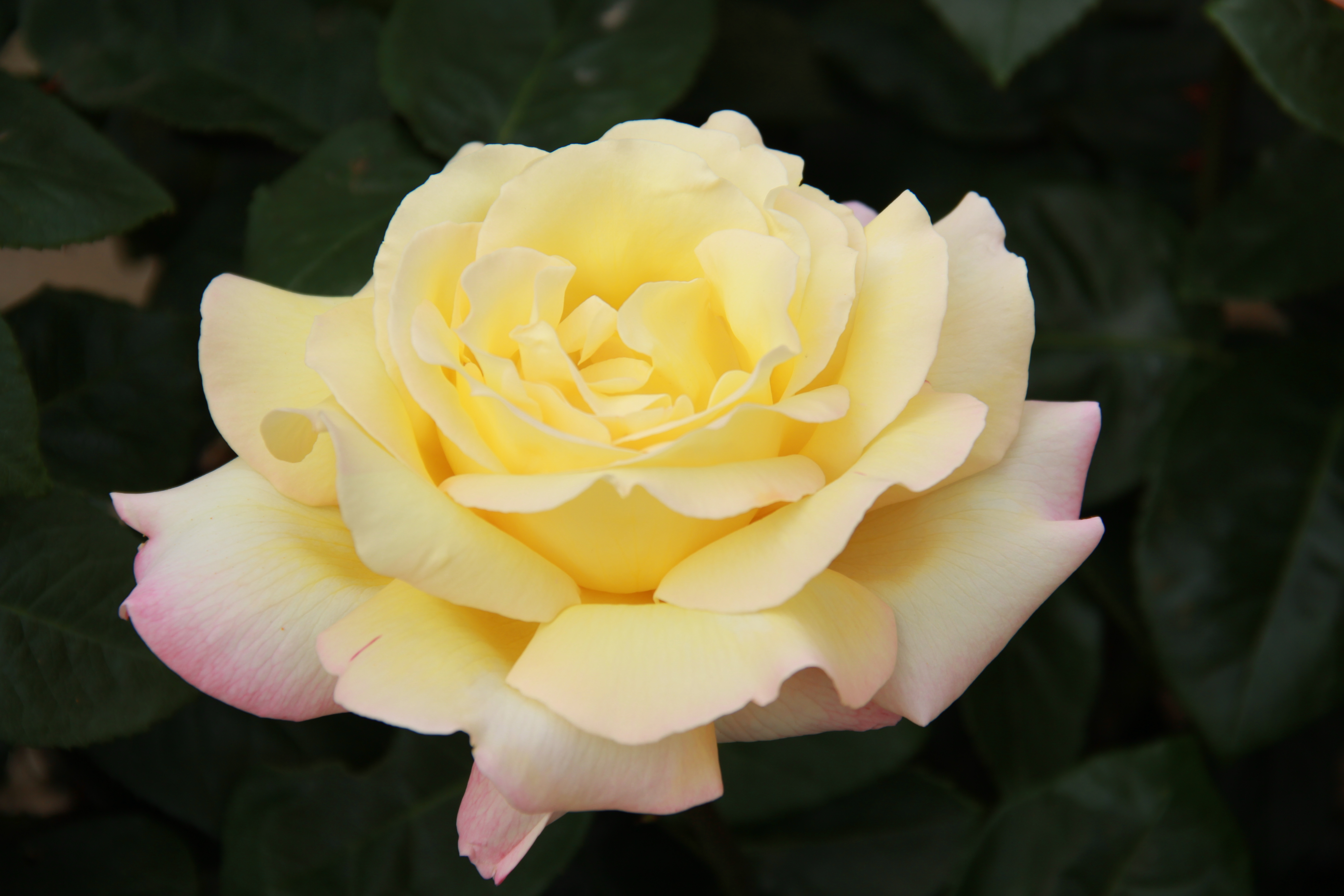 Hybrid Tea Rose (Rosa ) 'Peace'